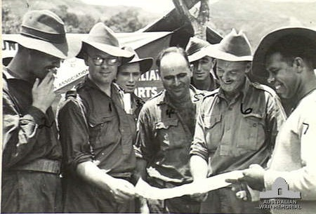 KESAWAI, RAMU VALLEY, NEW GUINEA, 1944-03-05. ALEX GURNEY, CREATOR OF THE "BLUEY AND CURLEY" NEWSPAPER COMIC STRIP (SECOND FROM LEFT IN SPECTACLES), PRESENTS ONE OF HIS ORIGINAL DRAWINGS OF THE COMIC STRIP TO TROOPS OF THE 2/12TH INFANTRY BATTALION A.I.F. AT A COFFEE STALL AT KESAWAI.